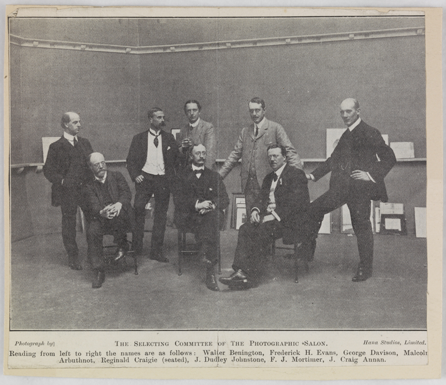 Creator: Hans Studios Ltd. Date: Unknown Format: Half tone reproduction Collection: The Royal Photographic Society Collection at the National Media Museum Inventory no: 2003-5001/2/24054 Blog post: Snappy 5th birthday Flickr Commons Reading from left to right the names are as follows: Walter Benington, Frederick H. Evans, George Davison, Malcolm Arbuthnot, Reginald Craigie (seated), J. Dudley Johnstone [sic], F. J. Mortimer, J. Craig Annan. Walter Benington's (1832 - 1976) first success was a picture entitled 'Among the Housetops', exhibited in 1893. e was elected to the The Brotherhood of the Linked Ring in 1902 (aka 'Housetopper'). In 1927 Benington began working as a freelance portrait photographer at Elliott & Fry. Frederick Evans (1853 - 1943) was a bookseller and photographer. He bought his first camera in 1883 for photomicroscopic and landscape photography. George Smith, owner of the Sciopticon Company, made lantern slides from Evans's negatives. In 1887 Evans received the Photographic Society of London's medal of honour for his photomicrographs.